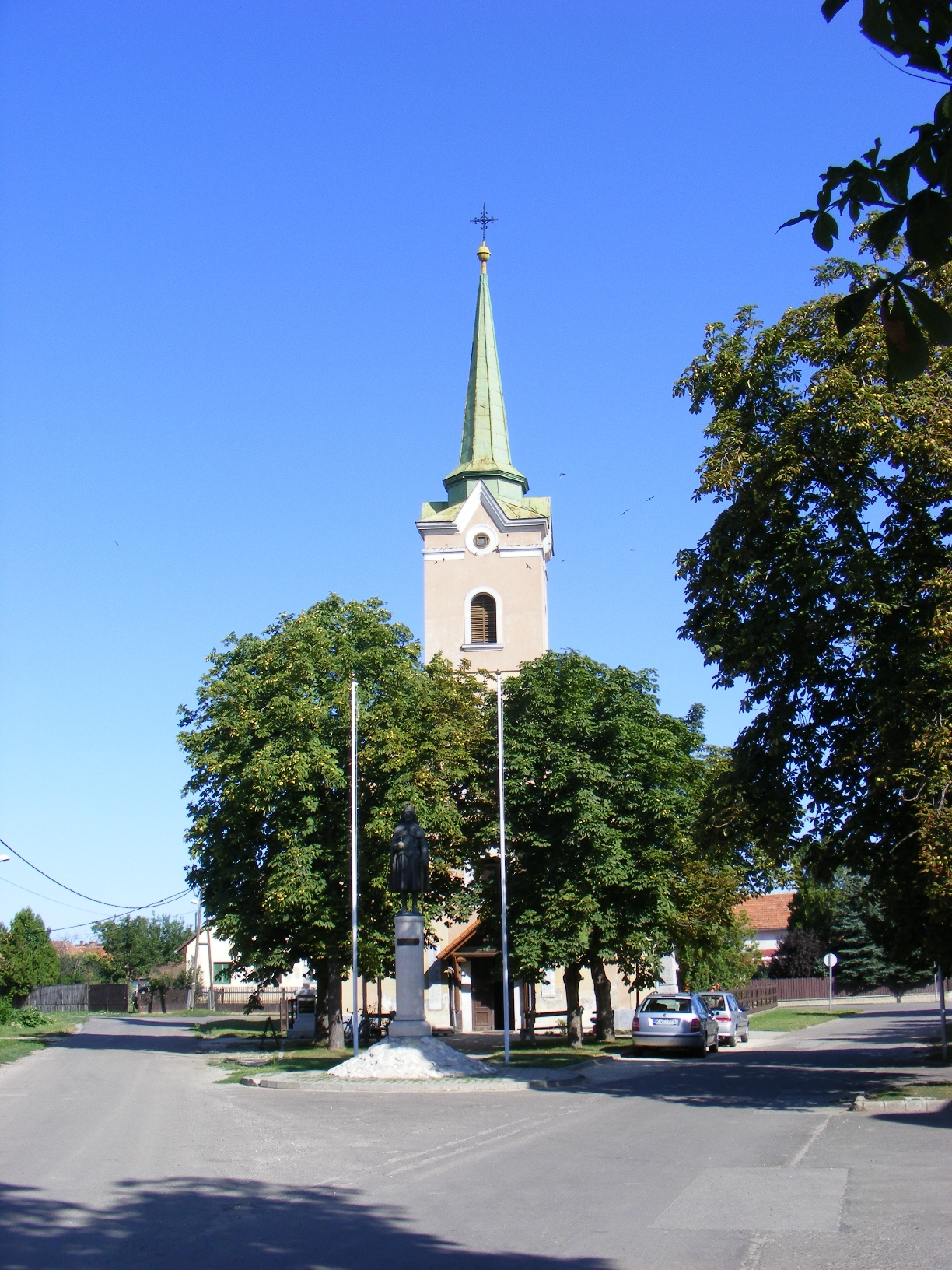 Catholic Church in Szajol